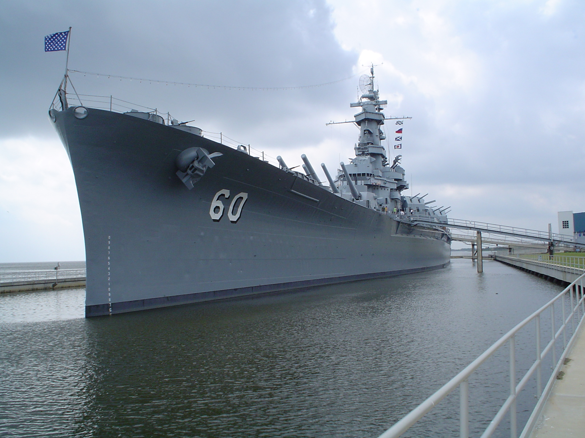 A bow shot of the USS Alabama (BB-60) located in Mobile, Alabama, USA.